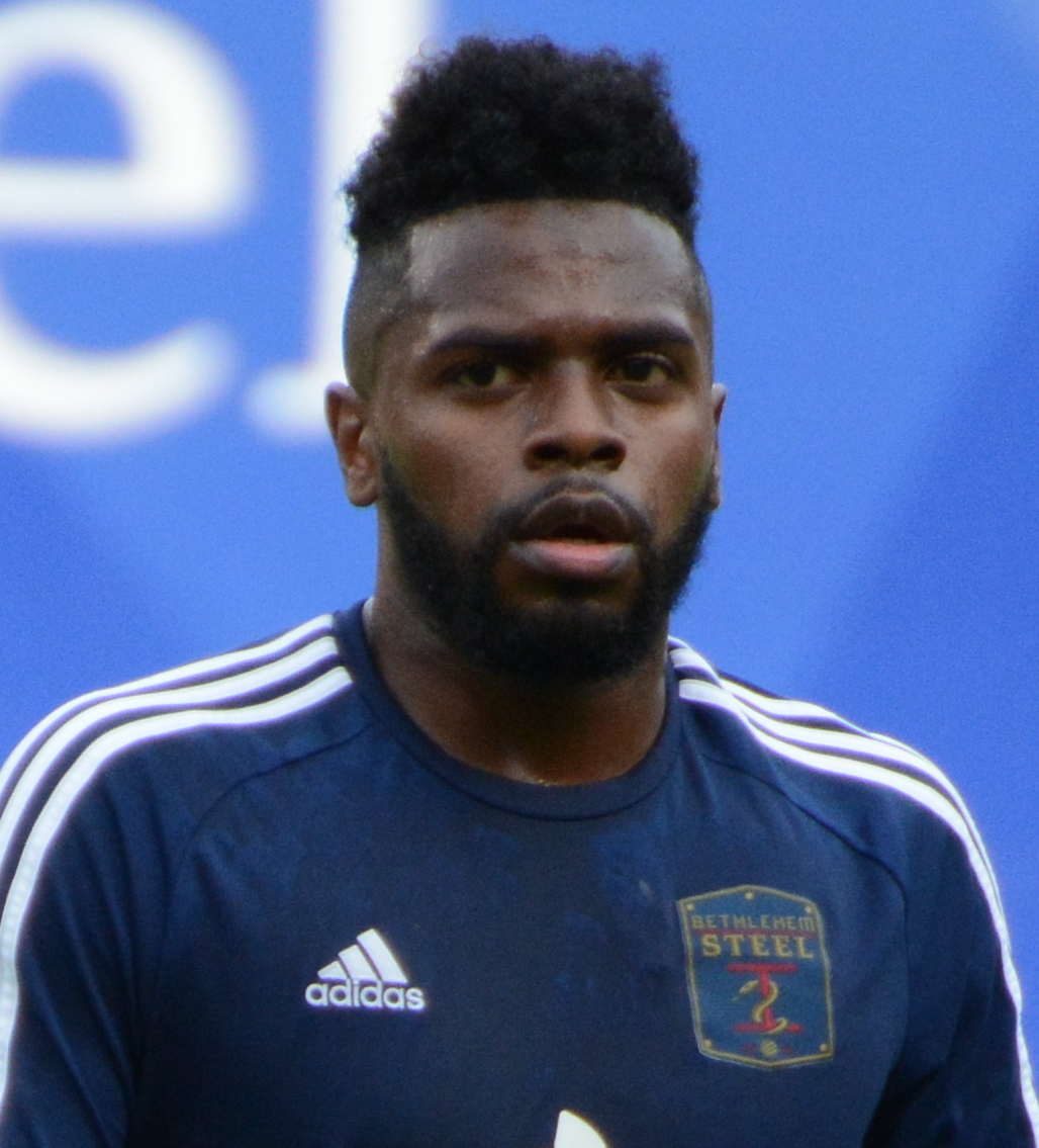 Canadian footballer Chris Nanco during a match between FC Cincinnati and Bethlehem Steel FC at Nippert Stadium in Cincinnati, USA on May 20, 2017.